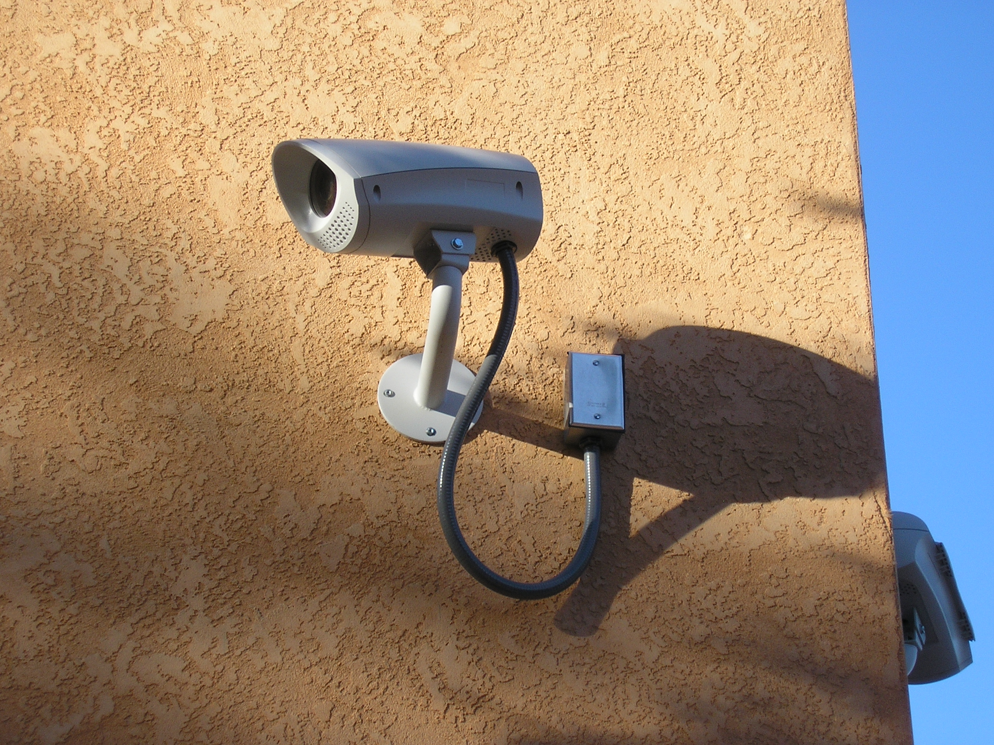 Courthouse camera in Santa Fe, New Mexico, where a ghostly image was recorded in June 2007.